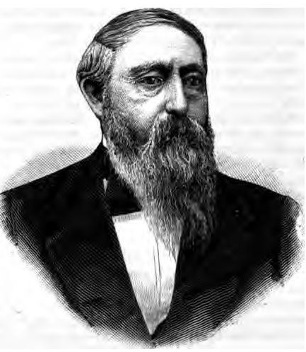 George W. Webber (Michigan Congressman)